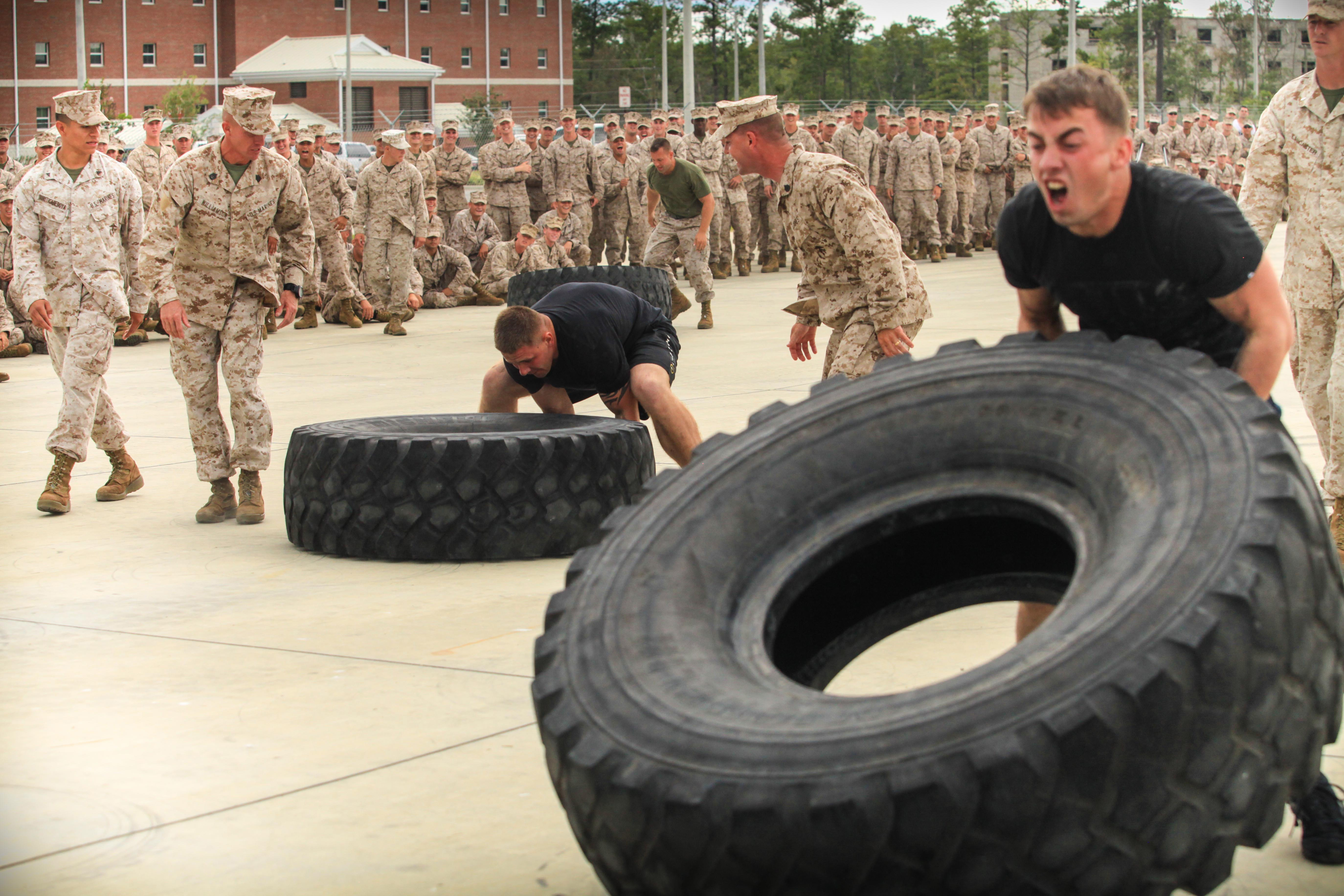 Marines and sailors with 2nd Battalion, 8th Marine Regiment, compete in a Strong-Man Competition as part of the 2/8 Olympics. The unit gave their weathered camouflage utilities a week-long break to carry out a battalion size Olympics promoting unit cohesion and competitive spirits.